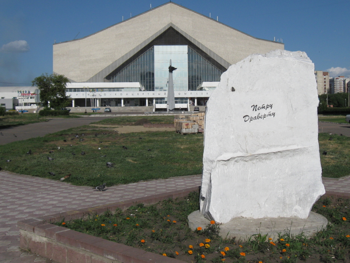 Memorial stone to Russian poet and scientist Piotr Dravert